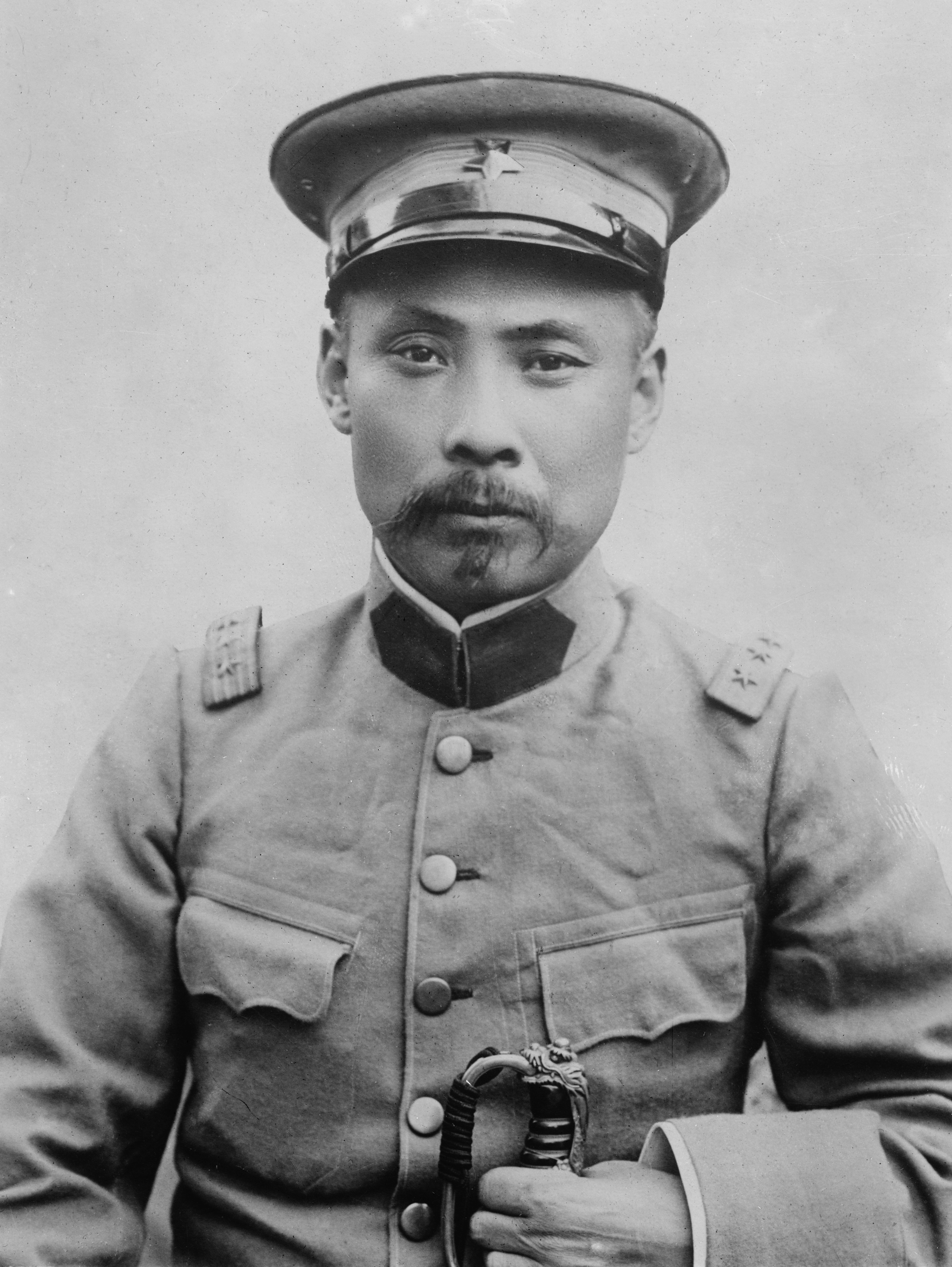 Photo of Duan Qirui.